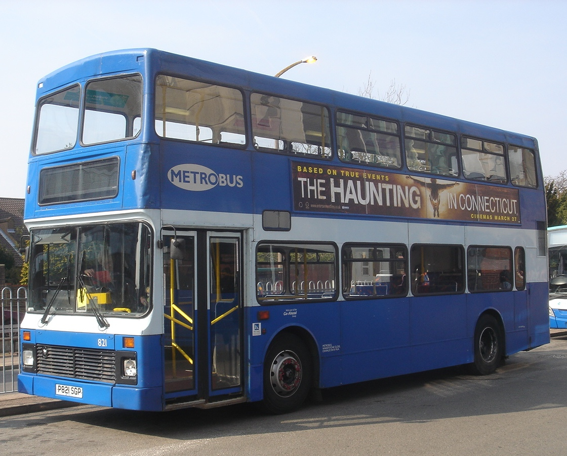 This Volvo Olympian YN2RV18Z4, one of 11 such buses in the Metrobus fleet, is waiting at Crawley Bus Station for its next journey.